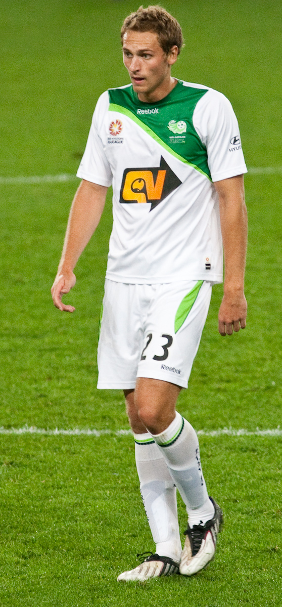 Rostyn Griffiths playing for the North Queensland Fury in the A-League.